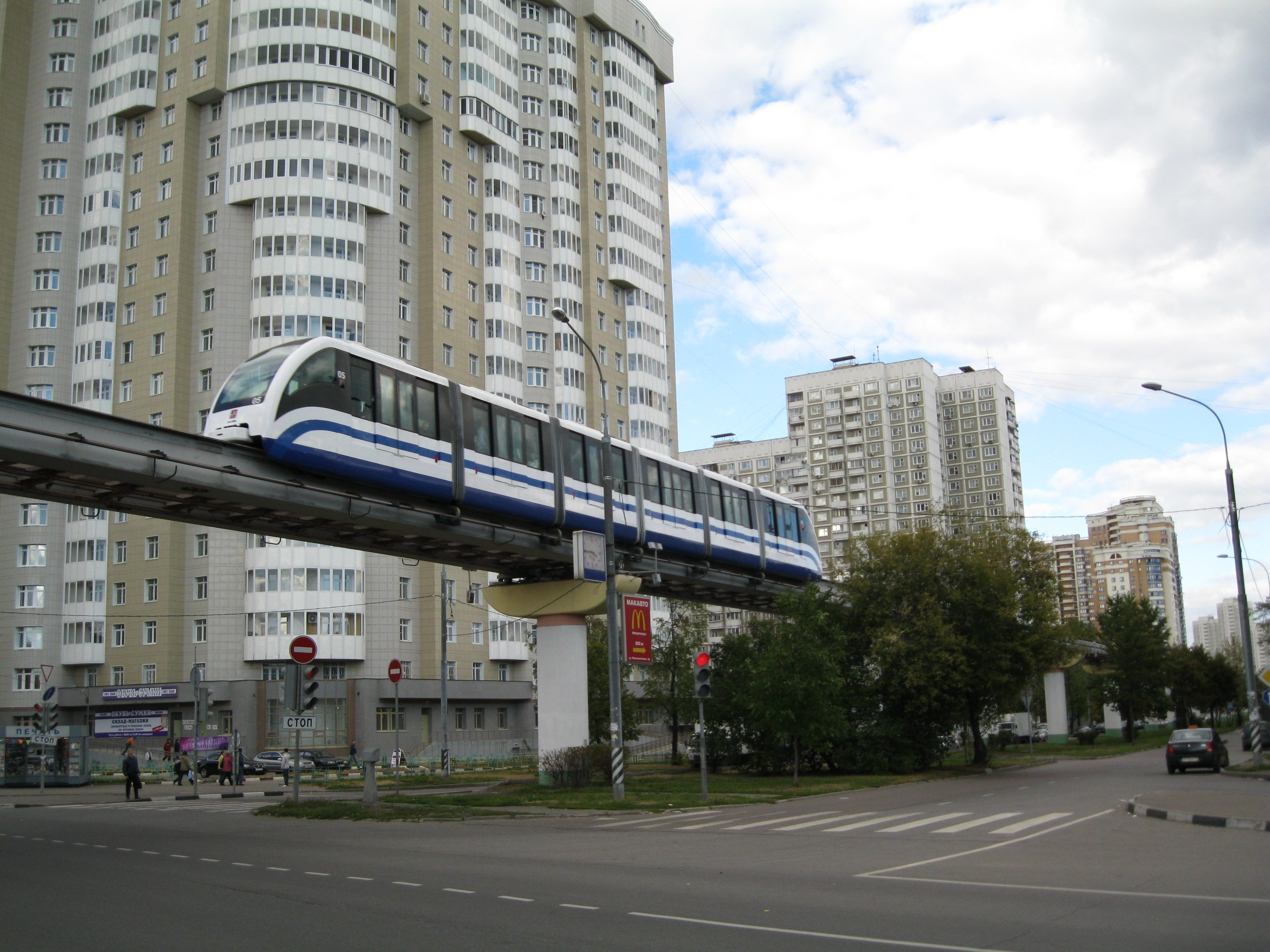 Fonvizina street in Moscow, Russia